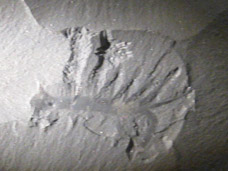 Fossil specimen of Hallucigenia from the Burgess Shale on display at the Smithsonian in Washington, DC